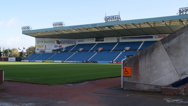 Rugby Park